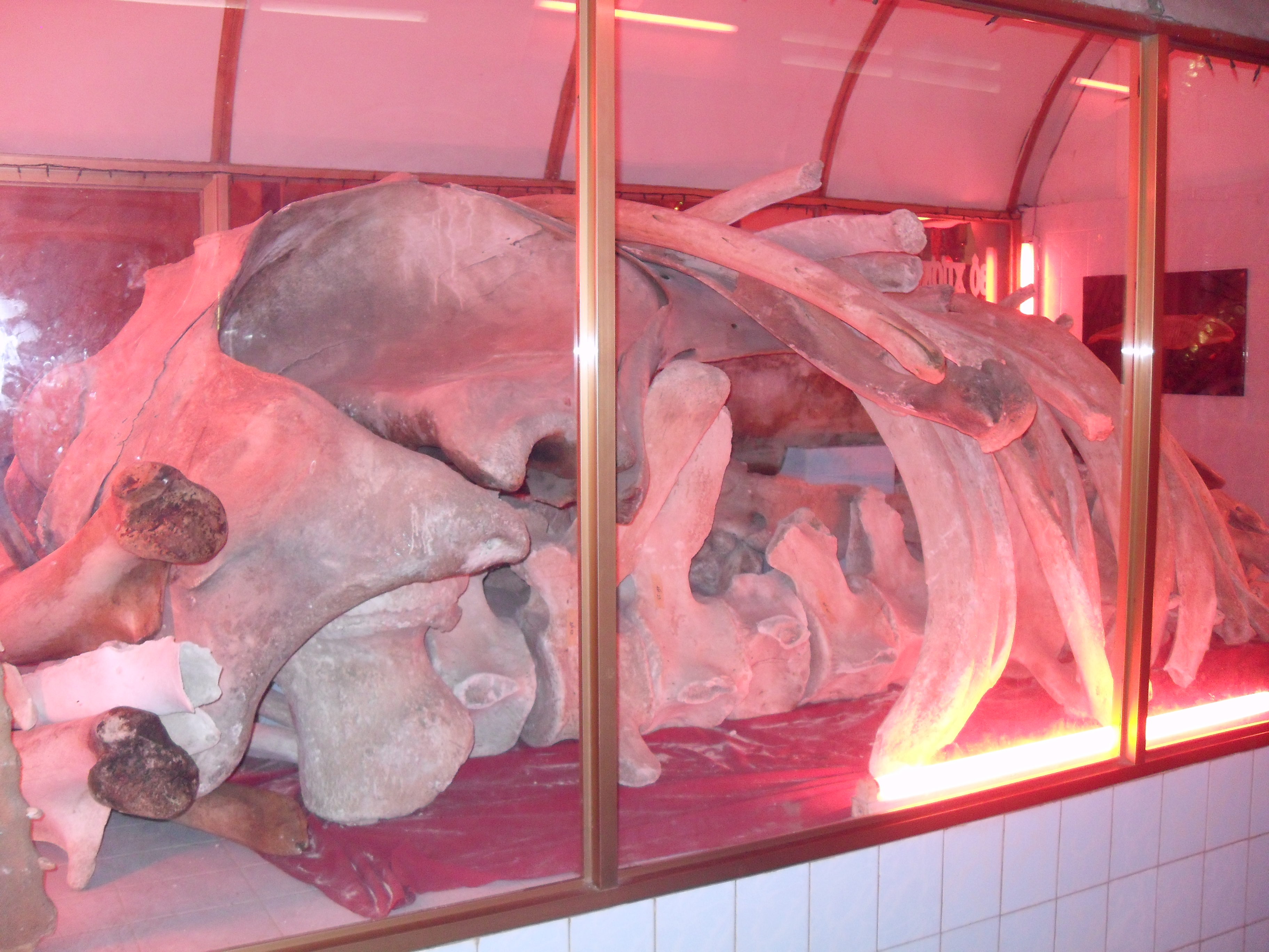 Whale bones inside Lang Ca Ong Temple in Vung Tau, Viêt Nam